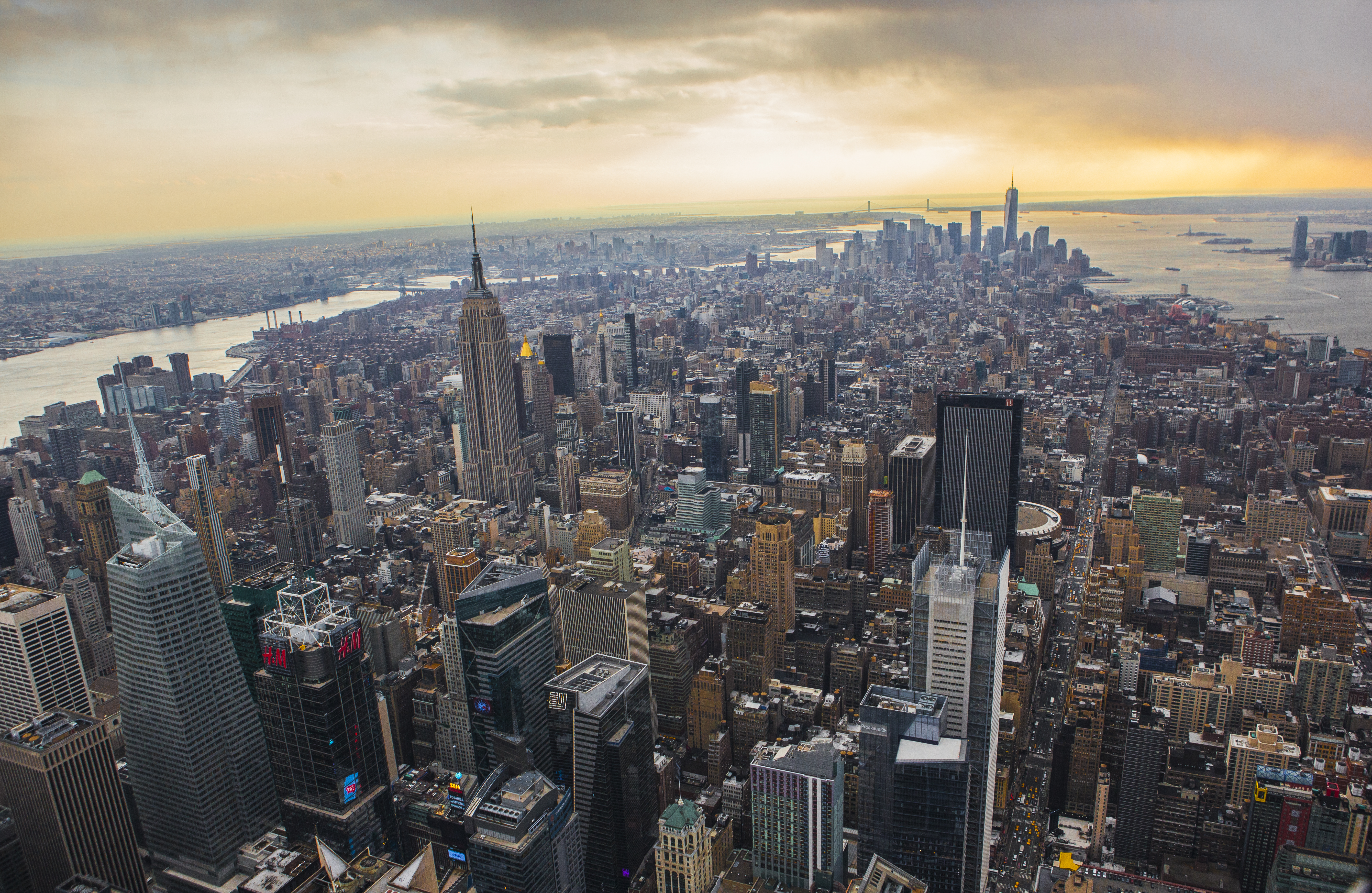 Manhattan